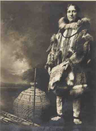 Isobel Wylie Hutchison (1889-1982) was an Arctic Traveller and Plant Collector